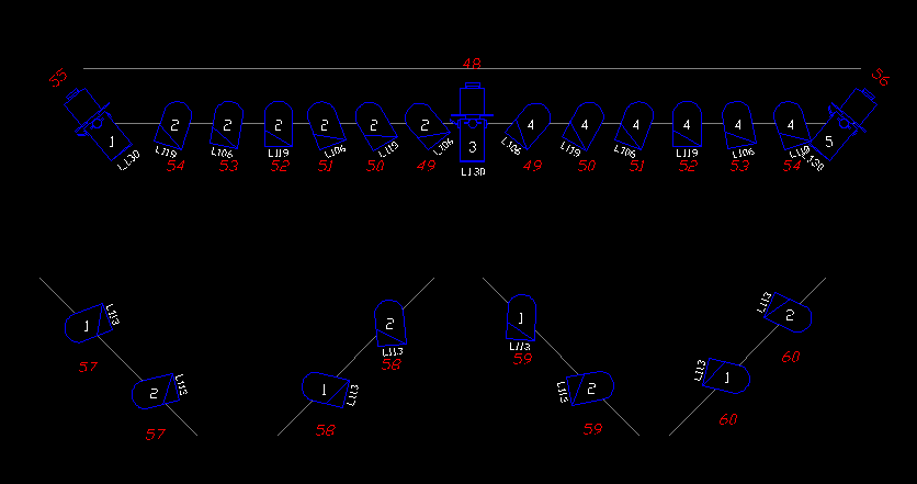 Part of the backlighting plan at Club Panama, Amsterdam